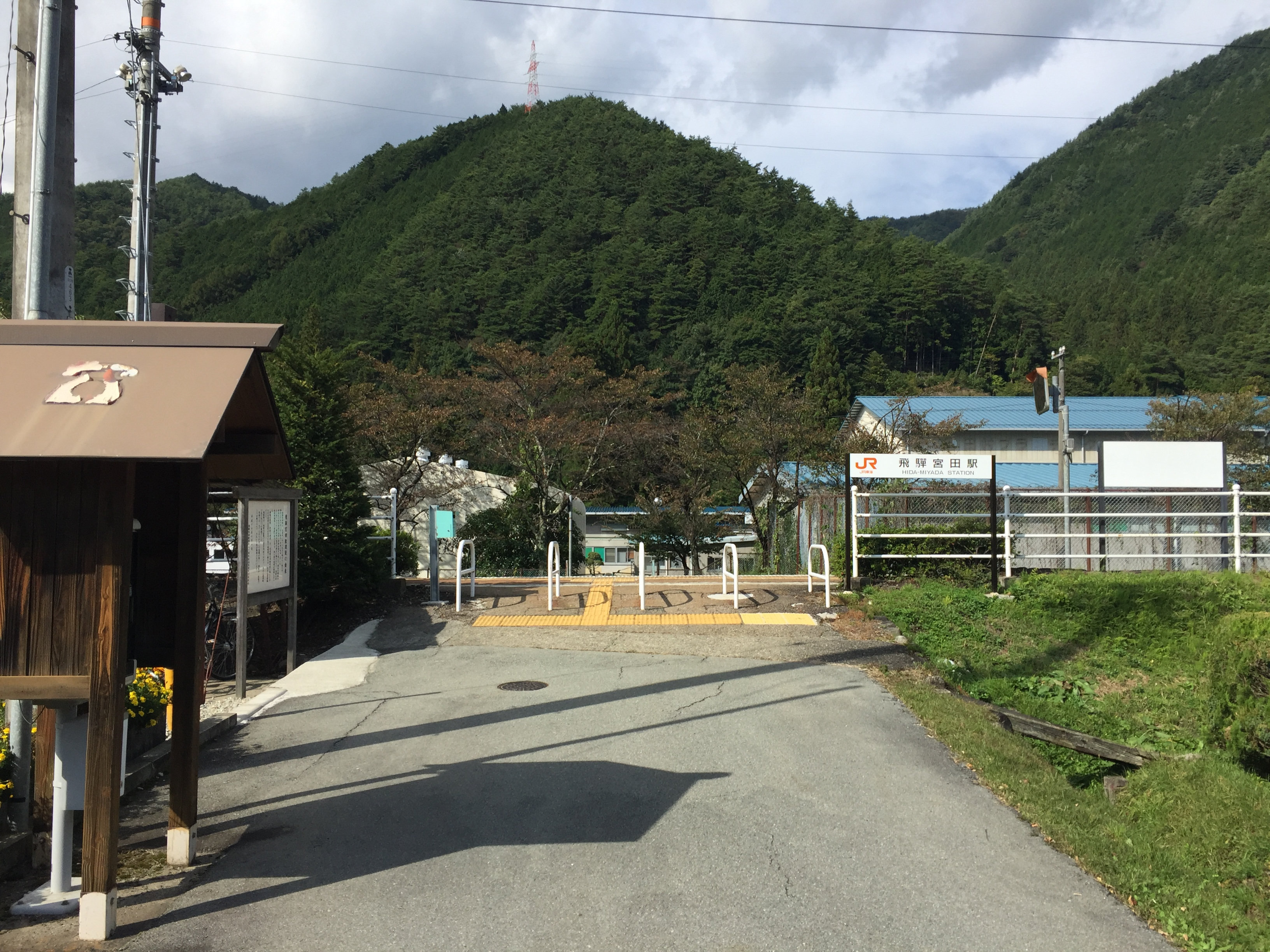 Entrance to Hida-Miyada Station on the JR Central Takayama Main Line.